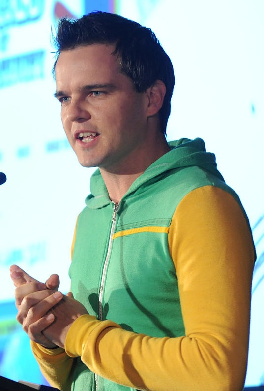 Actor and writer Tristan Bancks at the Melbourne Writers Festival 2011 - Photography: Carla Gottgens courtesy of MWF 2011